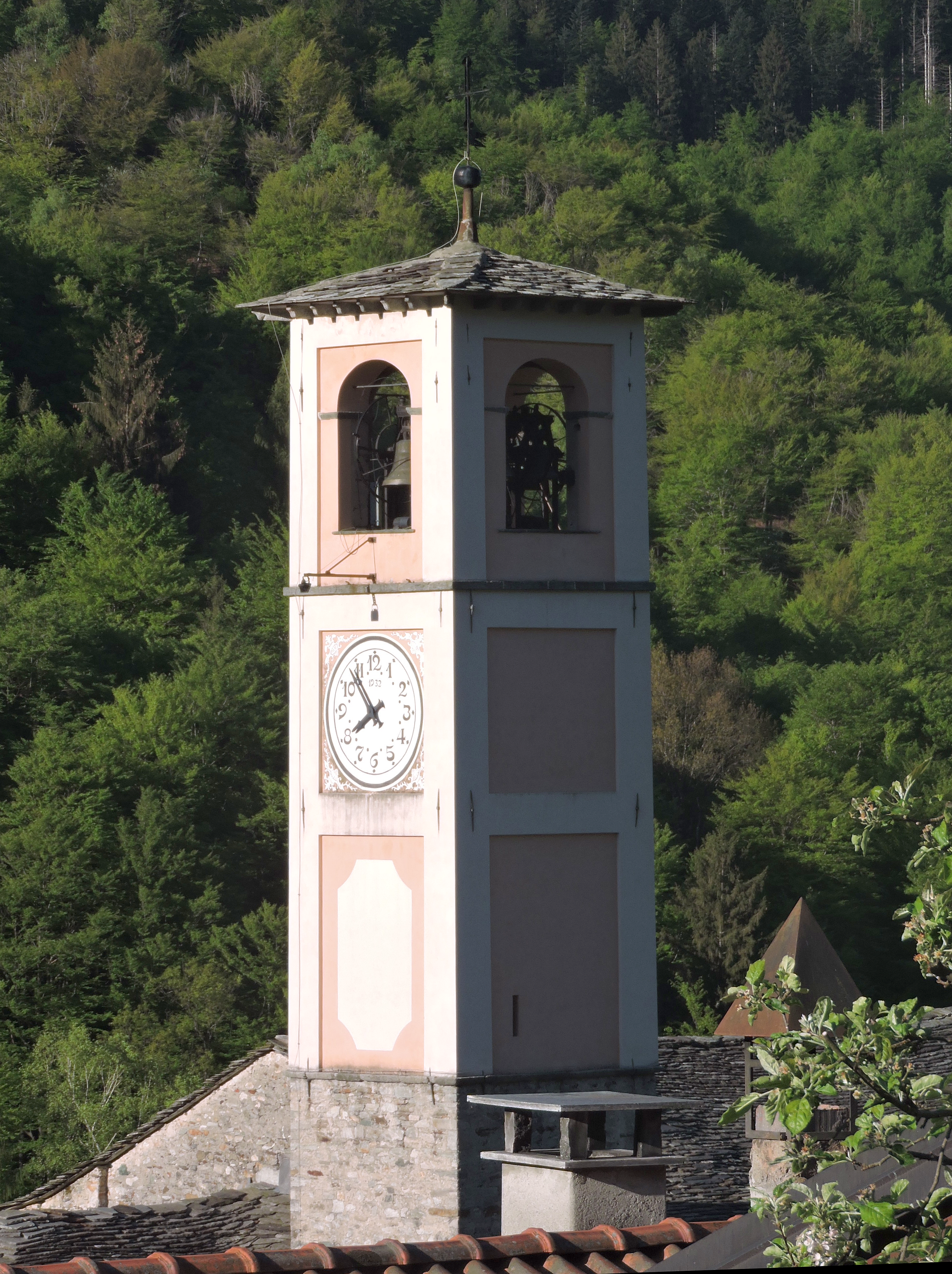 Camasco (Varallo, VC, Italy): church tower